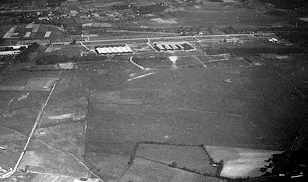 Romorantin Aerodrome, Flying Field #1